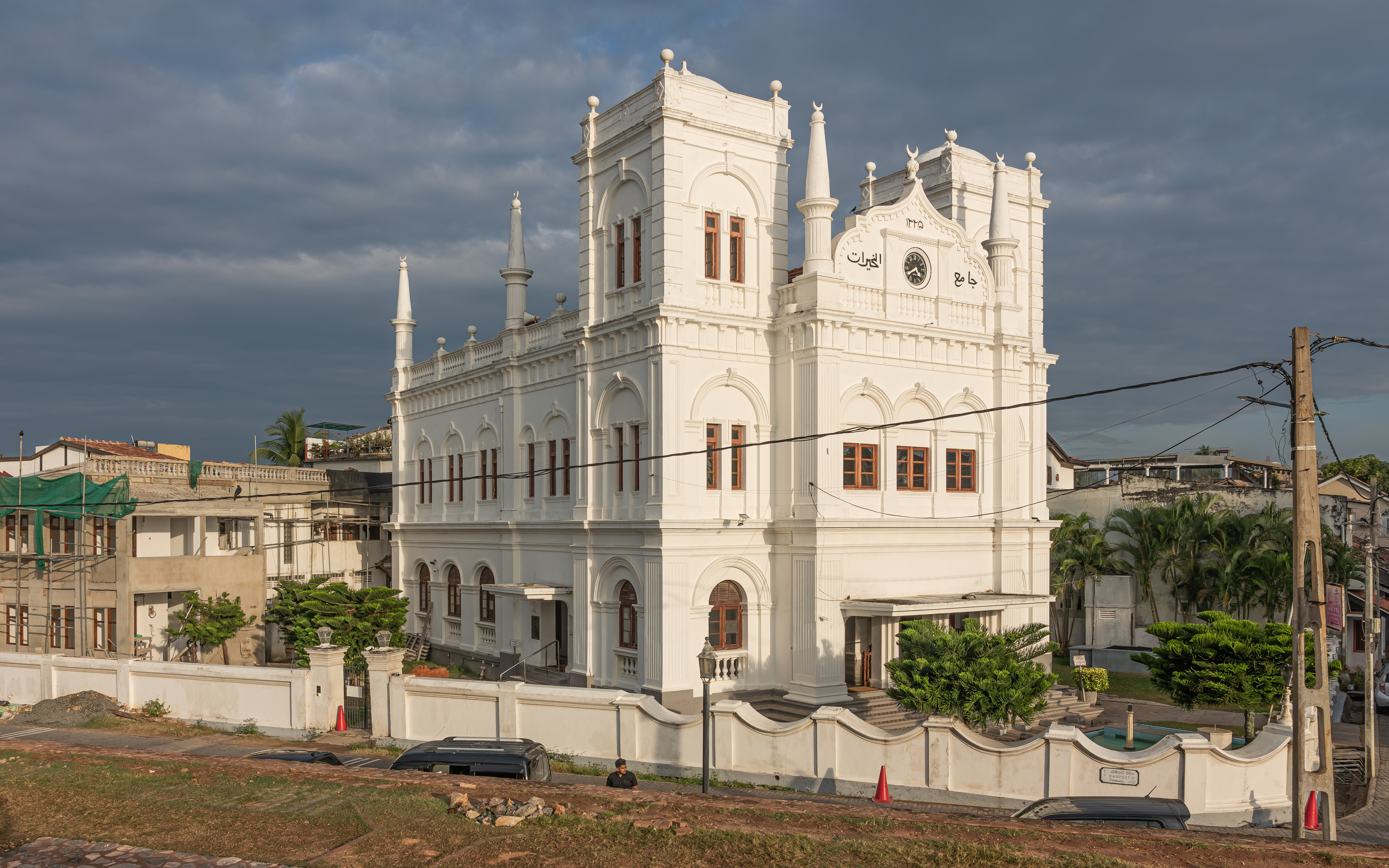 Meeran Jumma Mosque in the Dutch Fort of Galle, Sri Lanka